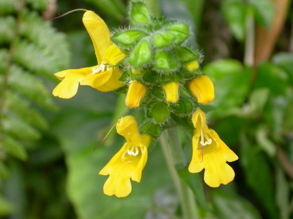 Salvia nipponica var. formosana